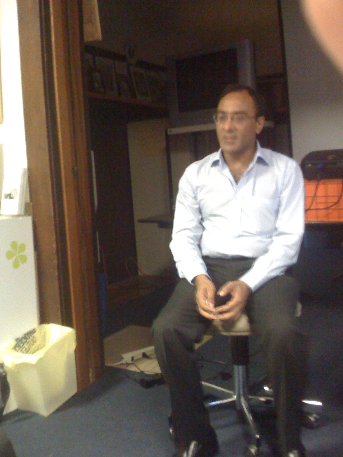 Dr. Safdar Sarki at an event organized at the San Jose Peace and Justice Center by the Friends of South Asia. Taken by and uploaded by user iFaqeer.